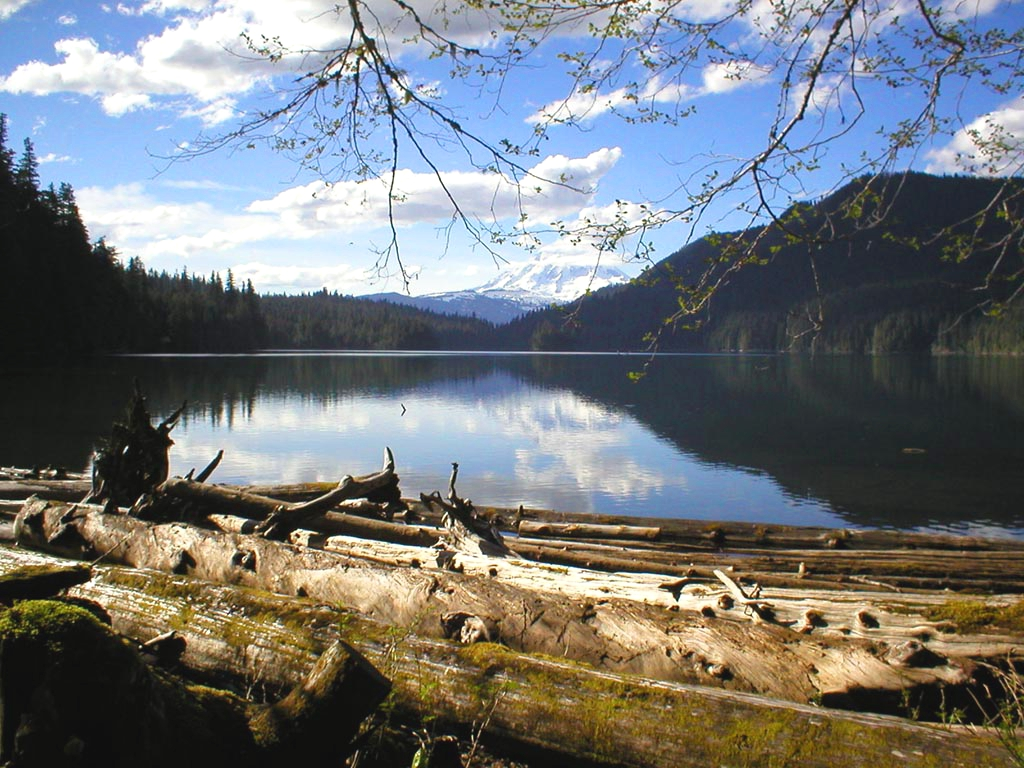 I took this picture and it is freely distributable.